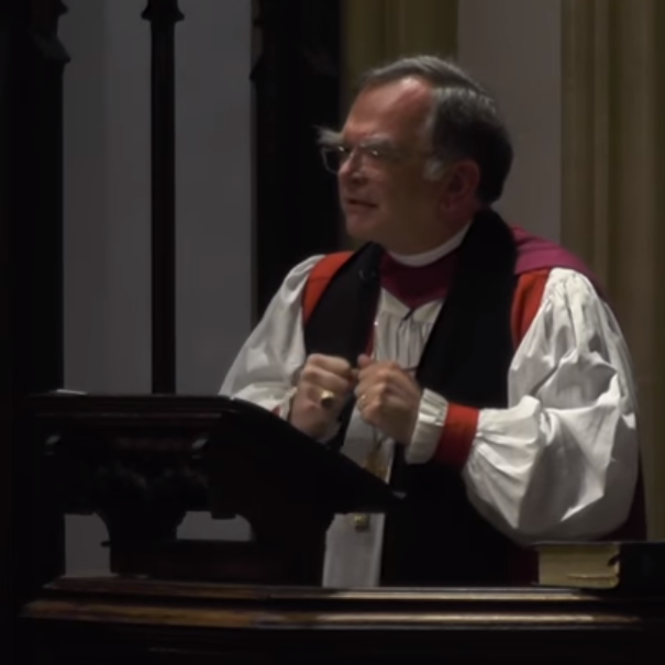 Robert William Duncan, Archbishop of the Anglican Church in North America, preaching in the Chapel of St. Mary the Virgin at Nashotah House Theological Seminary on 25 March 2014, the Feast of the Annunciation.